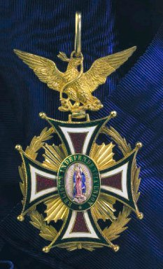 cross of the imperial order of our lady of guadelupe